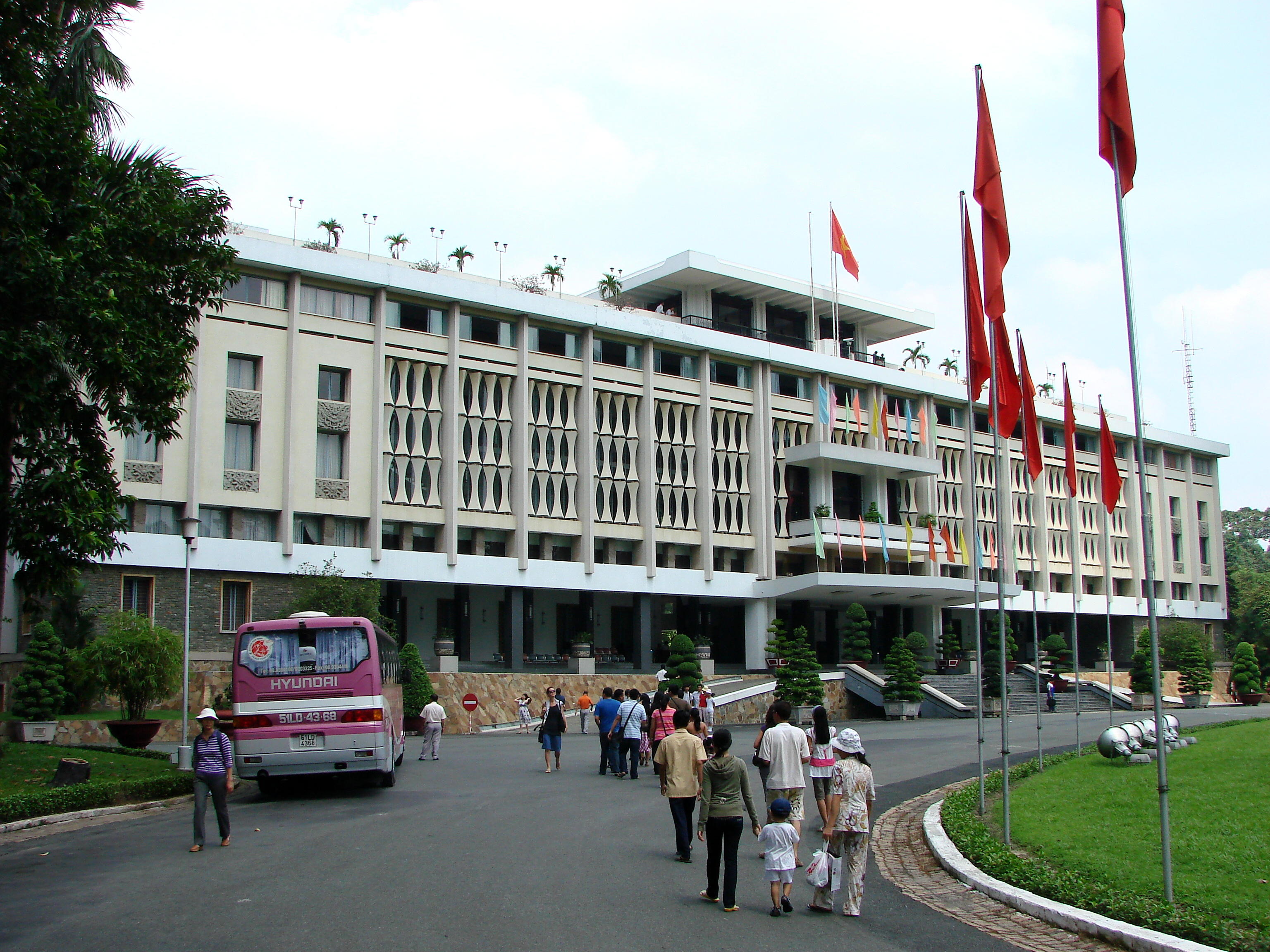 Reunification Palace, Saigon/Ho Chi Minh City, Vietnam. July 2009.